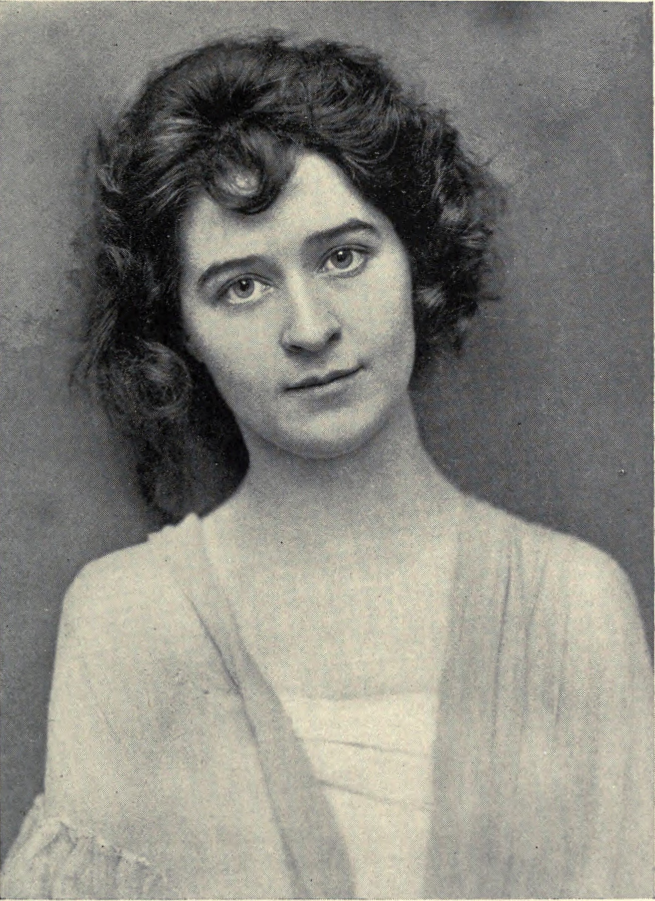 Black-and white, head-and-shoulders photograph of a white woman, Lottie Alter; she's facing the camera, not smiling, wearing soft light-colored clothing and her hair is dark, chin-length and curly; from a 1901 publication.